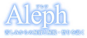 The logo of the Aleph, a cult group in Japan.